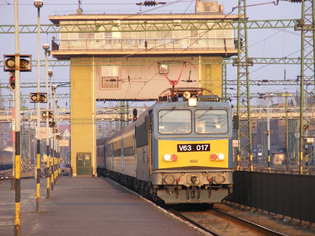 Control Tower of the Railway Station, Székesfehérvár, Hungary